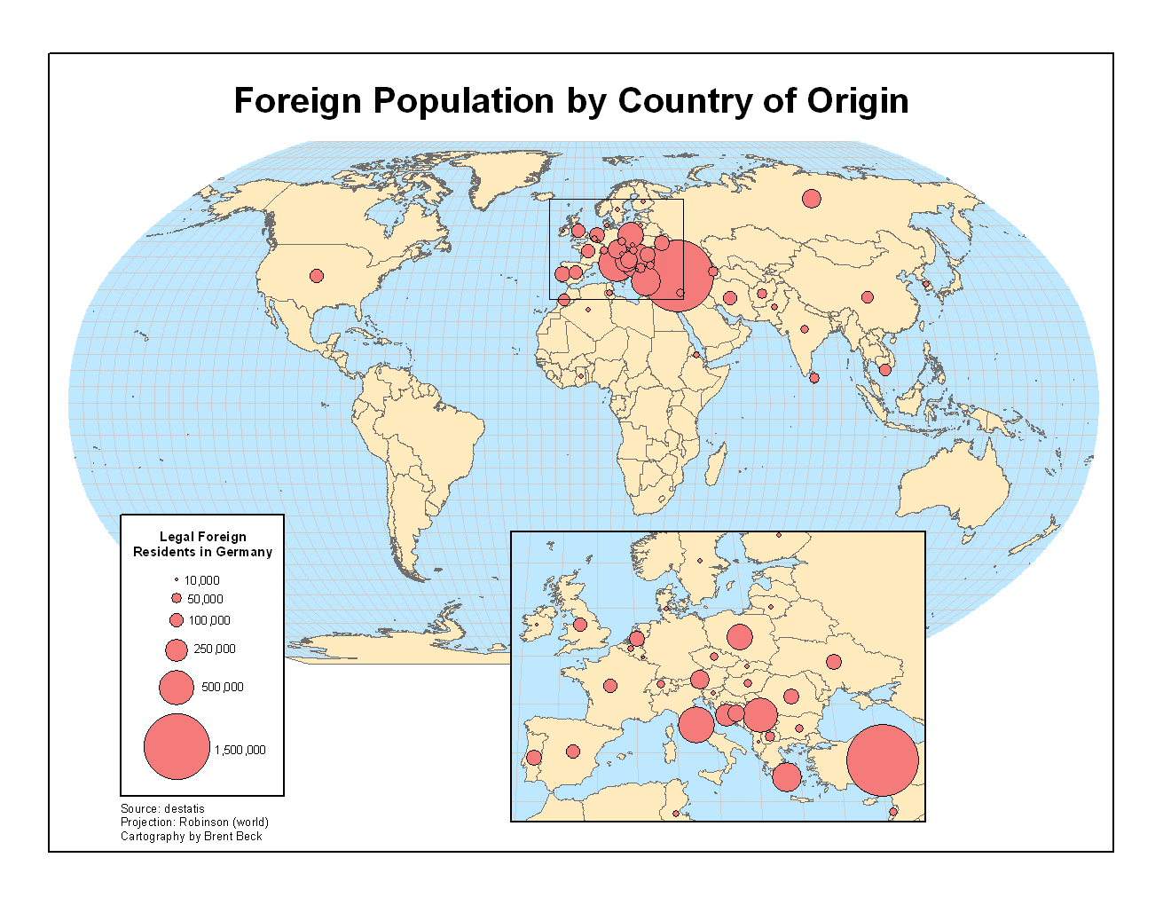 Germany's foreign population by country of origin.